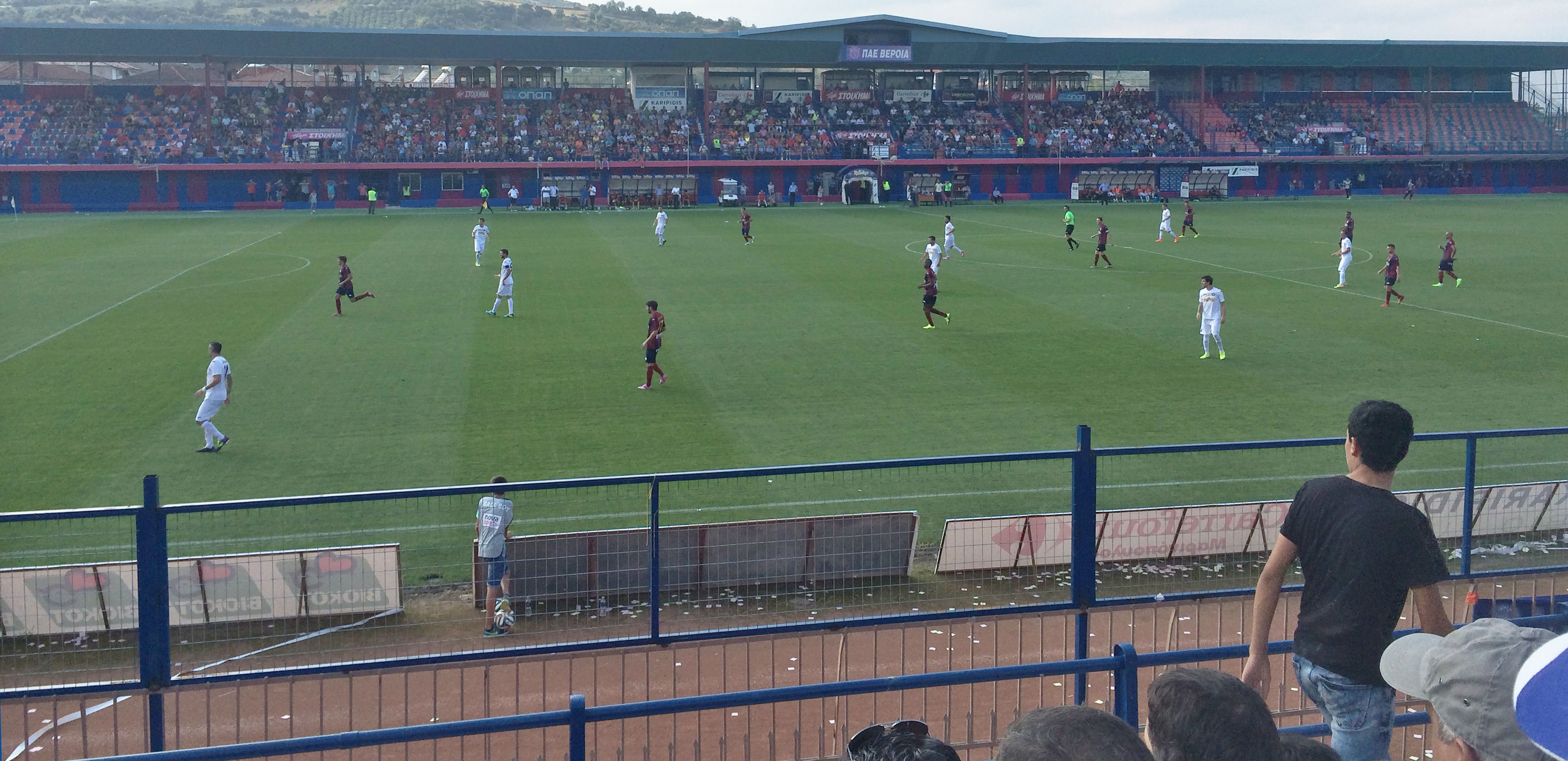 West stand view at Veria Stadium during Veria against Kerkyra football match